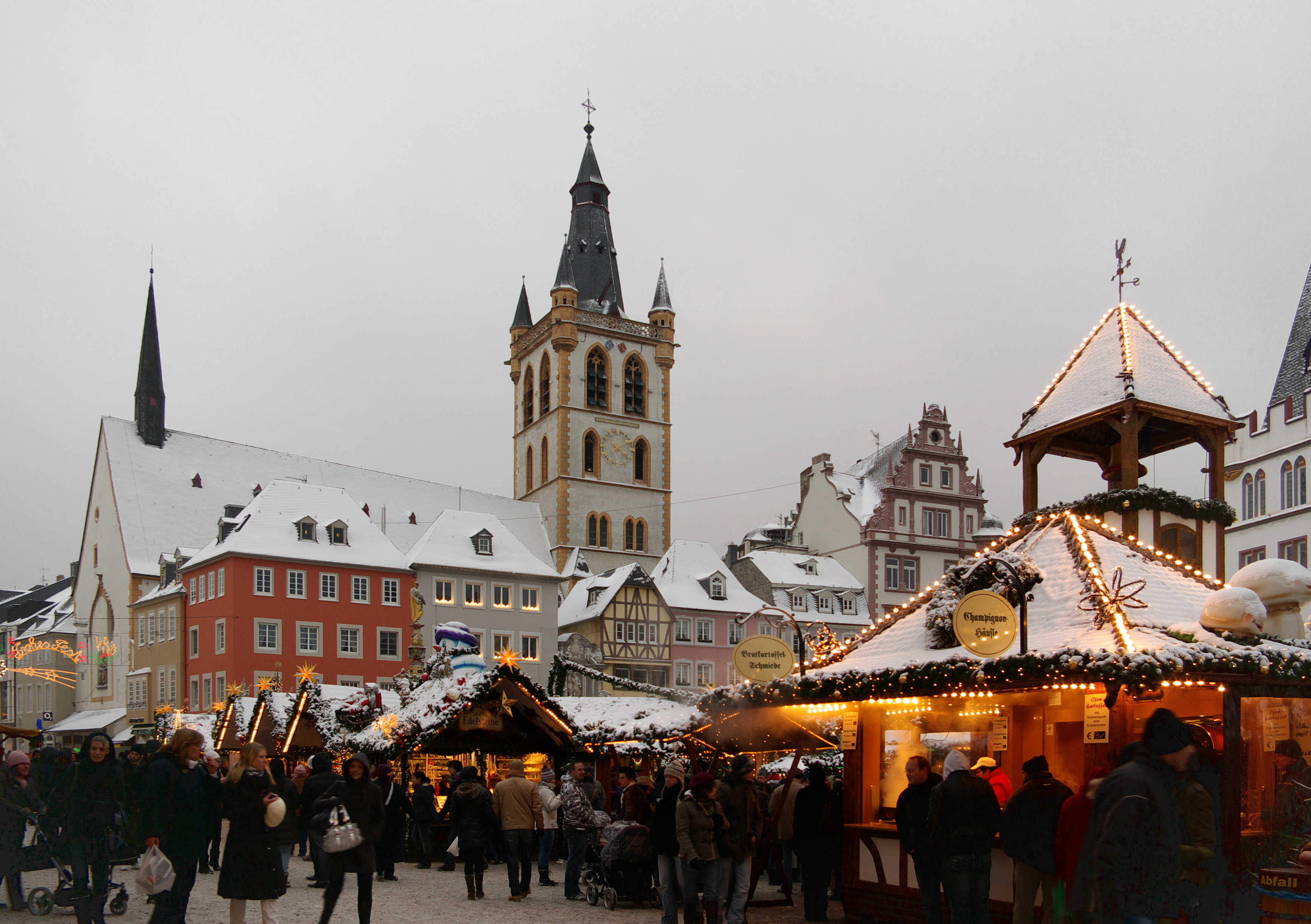 Christmas market in Trier, Germany